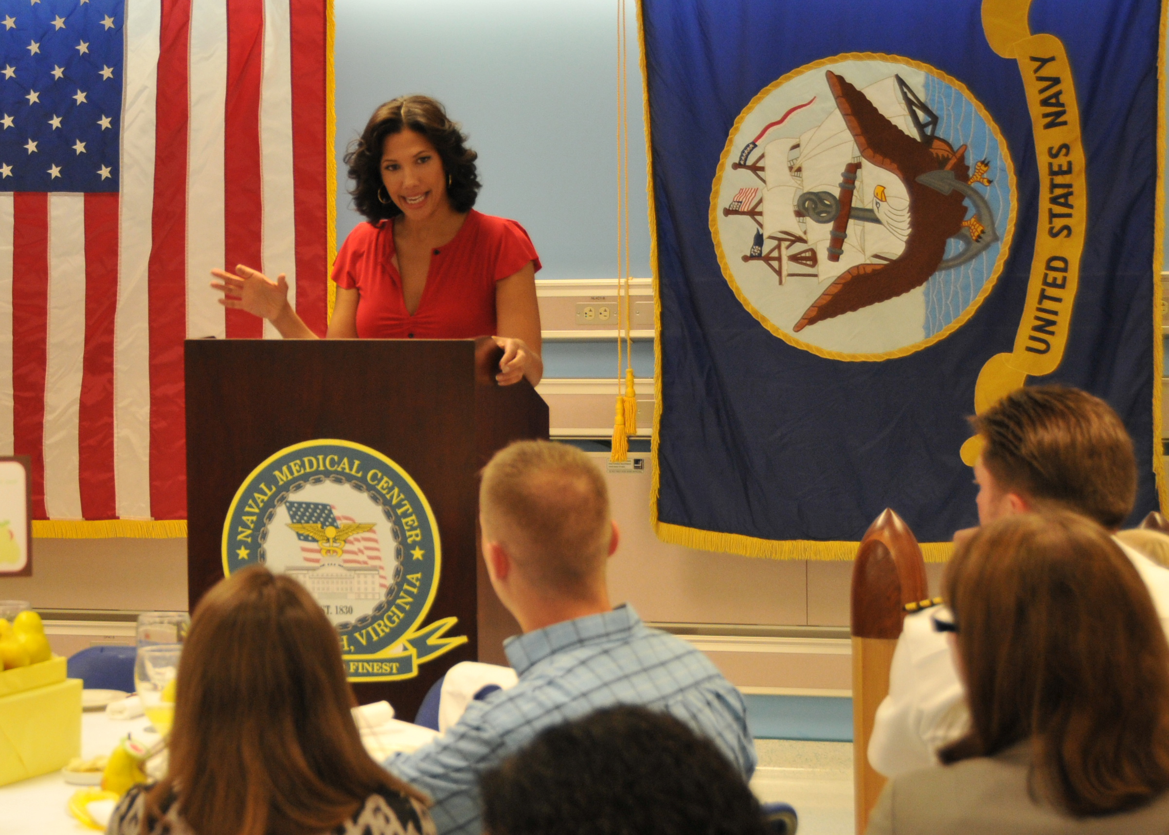 PORTSMOUTH, Va. (Sept. 20, 2009) Actress Wendy Davis, who plays Lt. Colonel Joan Burton on the show "Army Wives," serves as guest speaker during a baby shower at Naval Medical Center Portsmouth hosted by the medical facility for mothers of the Neonatal Intensive Care Unit. (U.S. Navy photo by Mass Communication Specialist 2nd Class William Heimbuch/Released)